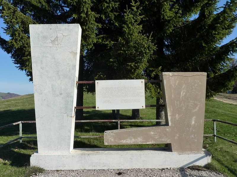 The monument of Vera Kotorka